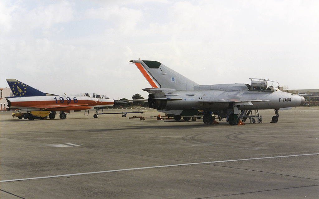 Left: Mirage IIIB, Right: Mig-21US F-ZAGR (April 2001)